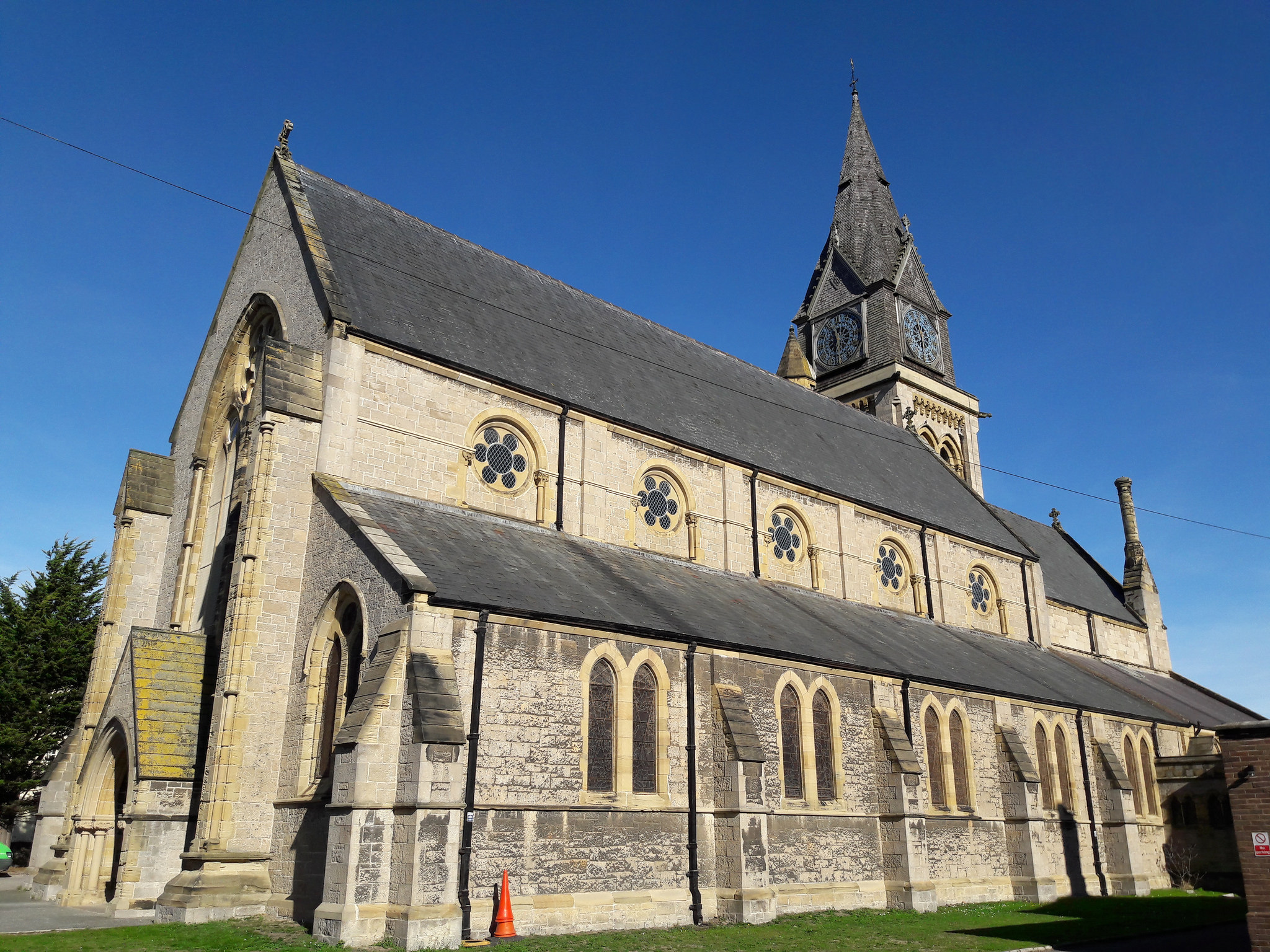 St Thomas' Anglican Church, Rhyl, Denbighshire